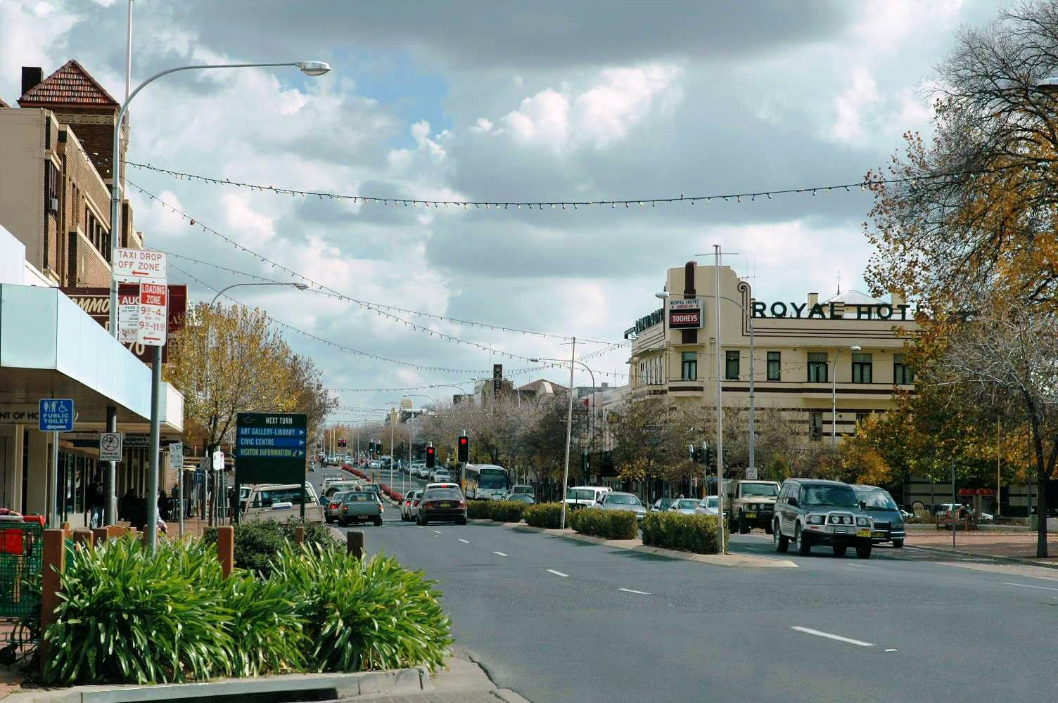 Summer Street (aka the Mitchell Highway), the main street of Orange, New South Wales.